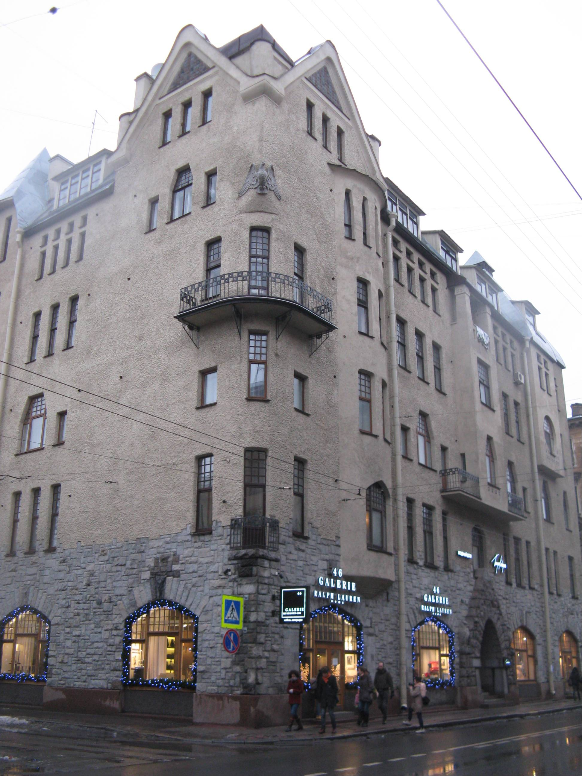 Putilova's_house after the restoration